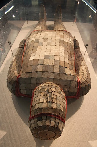 A Chinese Eastern Han (25-220 AD) burial suit with silver thread connecting the pieces of jade covering the deceased.